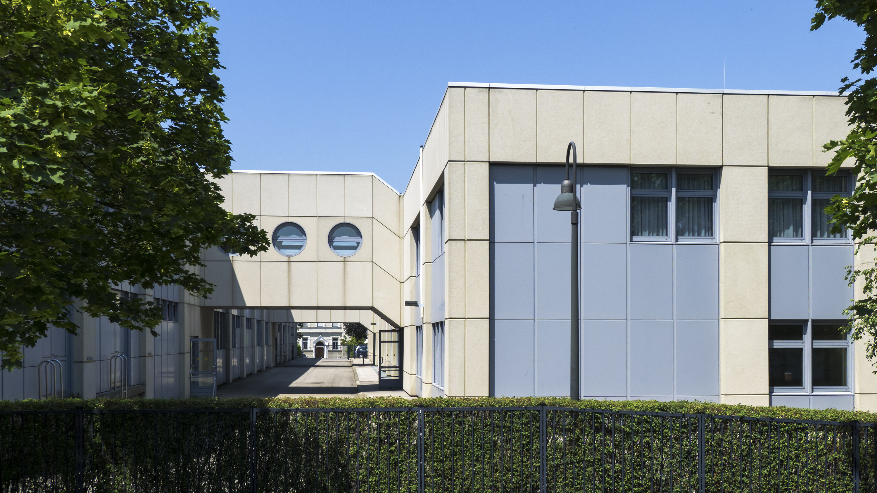 High school HTL Wien 10 in Vienna 10